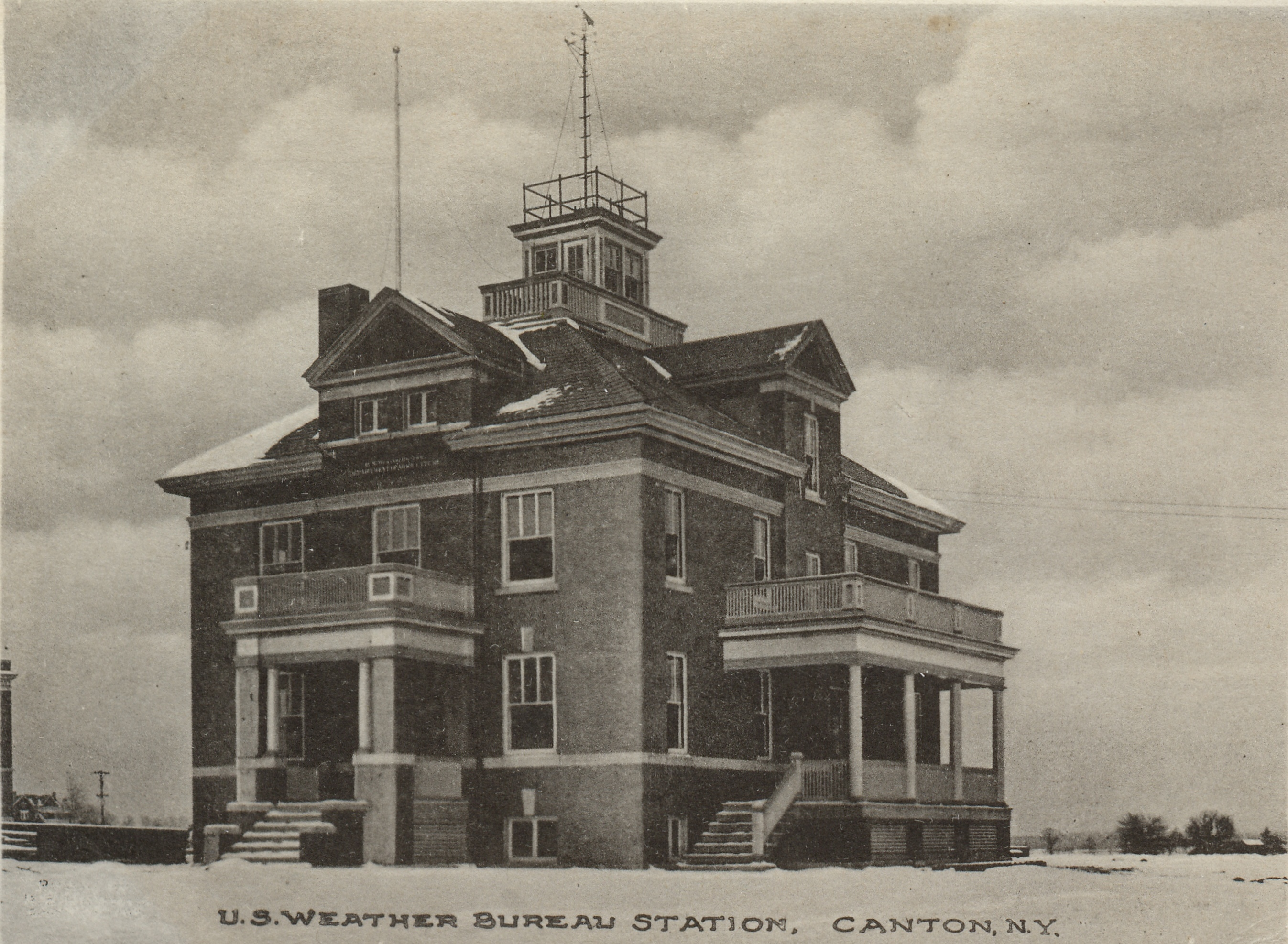 Postcard of the U.S. Weather Bureau Building at Canton, New York. 1900 Circa.